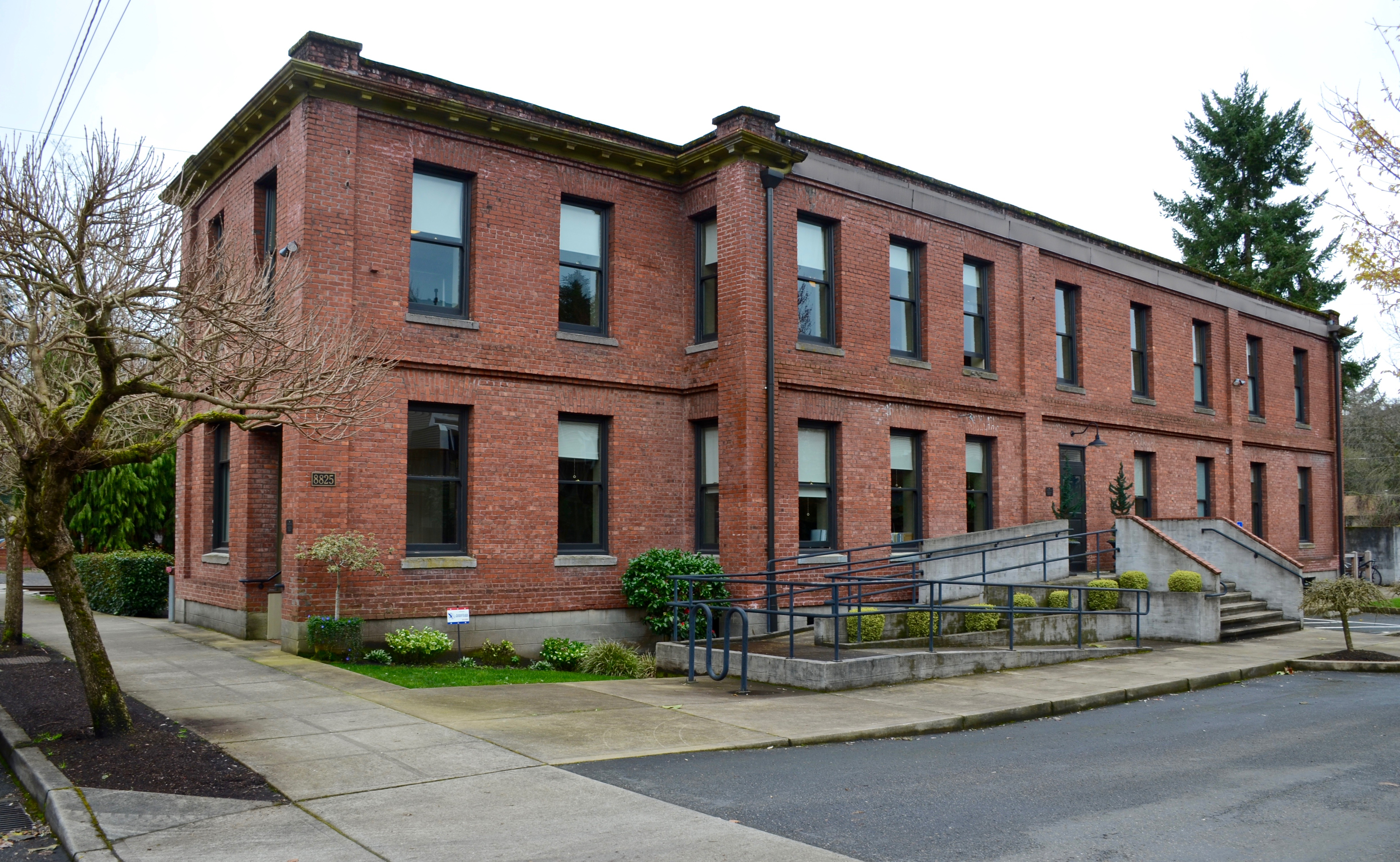 The former Portland Railway, Light & Power Company's Sellwood Division Carbarn Office and Clubhouse, commonly known as the Carmen's Clubhouse during its original period of use. It was built in 1910 and is listed on the National Register of Historic Places. This view is from the northeast, with the sidewalk on SE 11th Avenue in the foreground. During the building's original use, tracks ran past this side of the building and also the other (south) side, to reach the Sellwood Carbarn (which was located to the left, on the other side of 11th Avenue). A single freight track of Oregon Pacific Railroad still runs past the building's south side.